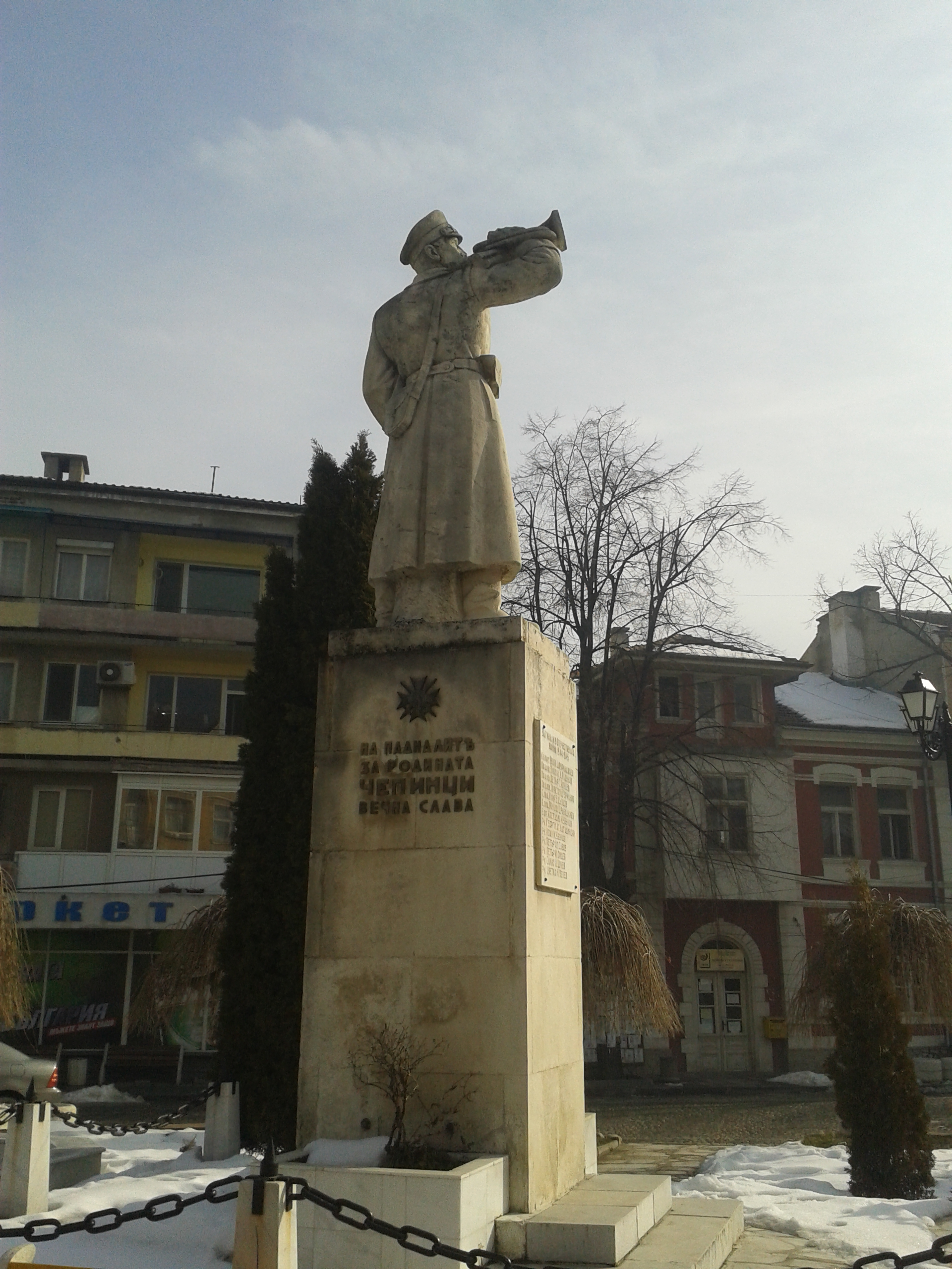 Chepino Banya War Monument